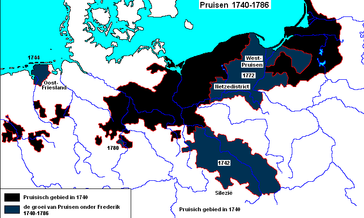 The growth of Prussia under Frederick II